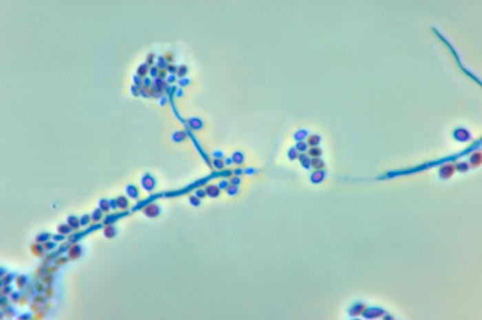 ID#: 4208 Description: This photomicrograph reveals the conidiophores and conidia of the fungus Sporothrix schenckii. Sporotrichosis, caused by the etiologic pathogen Sporothrix schenckii, is a skin infection involving the subcutaneous layer, and manifest itself in the formation of large ulcerations, however, the disease can become systemically disseminated. Content Providers(s): CDC/Dr. Libero Ajello Creation Date: 1972 Copyright Restrictions: None - This image is in the public domain and thus free of any copyright restrictions. As a matter of courtesy we request that the content provider be credited and notified in any public or private usage of this image.